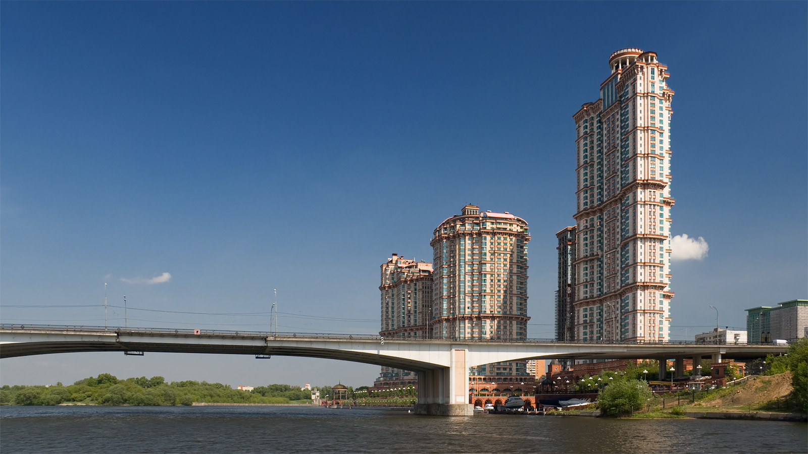 Moscow, Stroginskiy most (built in 1981) and Alye Parusa residential complex (2000) at Shukino